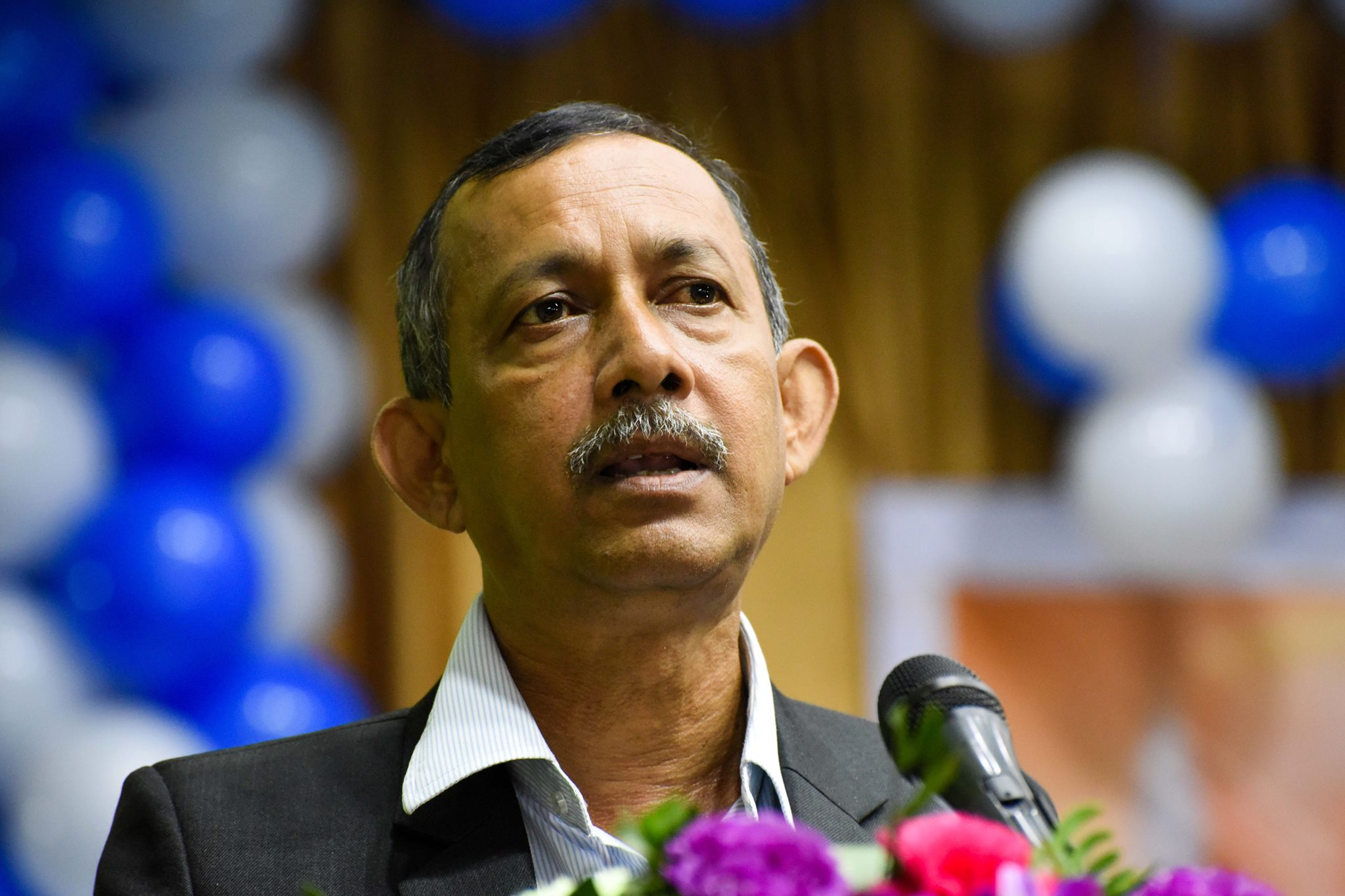 This picture was taken while Shri Goutam Deb was delivering his speech in a seminar